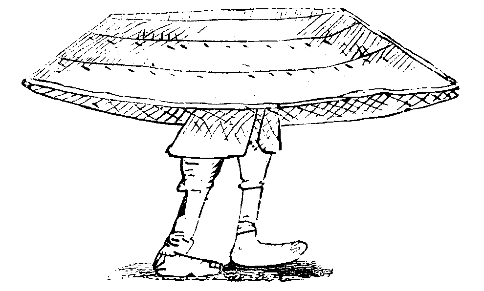 "Linnaeus's drawing of a Lapp [note: use Sami for EN Wikipedia] carrying his boat, from Lapland Journey."